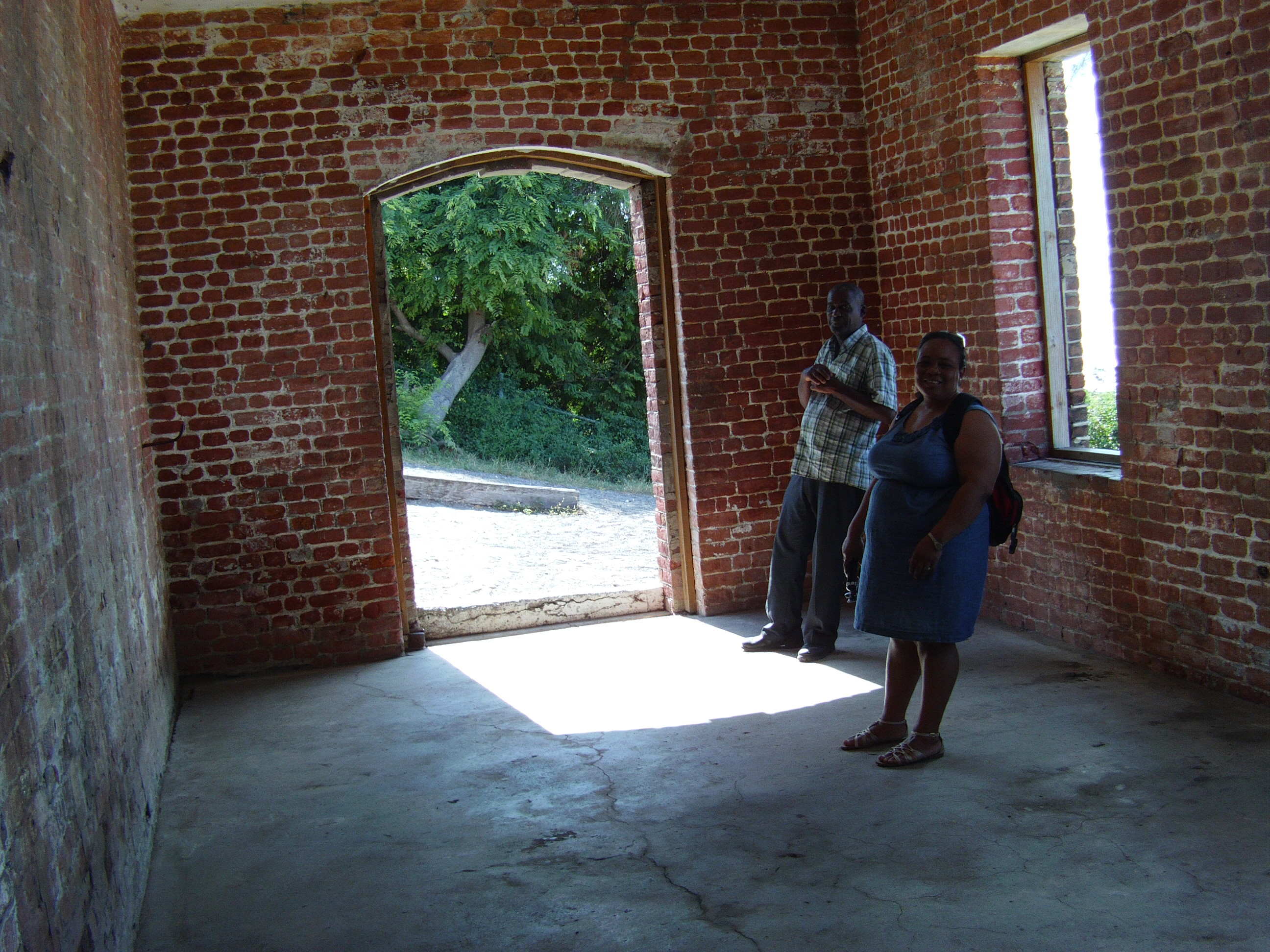 Inside the storehouse of Victoria and Albert Battery, Port Royal. Moved as a result of the 1907 earthquake, its tilt is clearly seen and felt when inside.